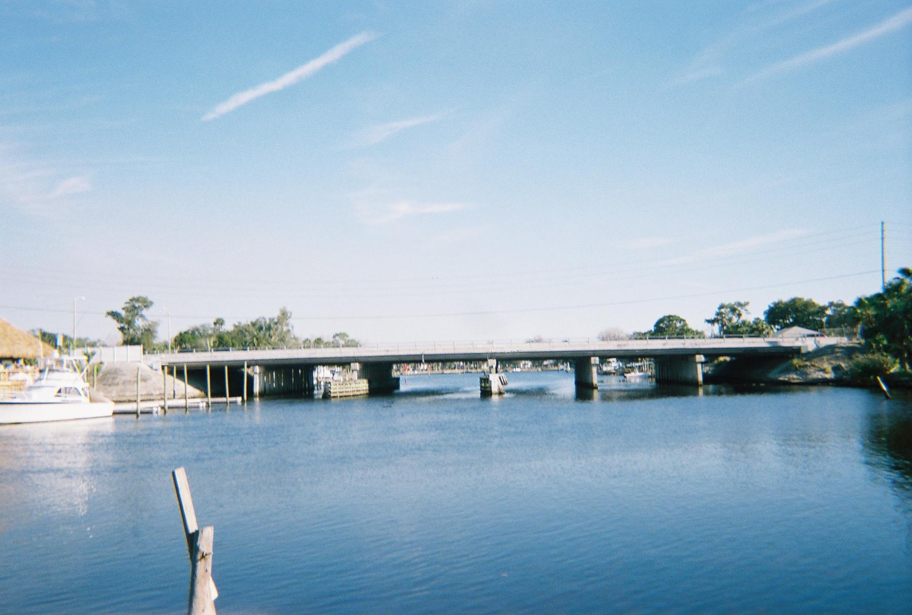 The US 19 bridge over the Pithlachascotee River between Port Richey, Florida(left) and New Port Richey, Florida(right). Taken from the NPR side of the river, it was intended to cover both the bridge an Port Richey.